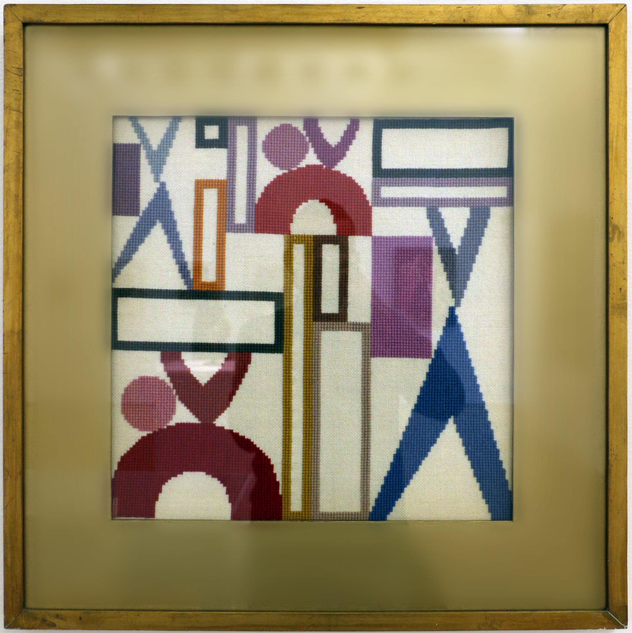 Decorative arts in the Musée national d'art moderne